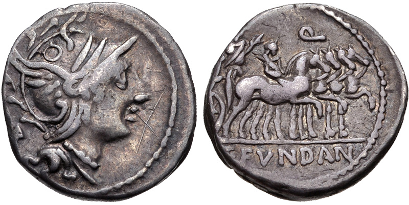 C. Fundanius 101 BC. AR Denarius (17mm, 3.83 g, 6h). Rome mint. Helmeted head of Roma right / Triumphator in quadriga right, holding [scepter] and laurel branch; a youth riding the nearest horse, holding laurel branch; Q above. Crawford 326/1; Sydenham 583; Fundania 1. VF, toned, graffito (“X”) in field on obverse. Ex Archer M. Huntington Collection, ANS 1001.1.25487 (Classical Numismatic Group Electronic Auction 328, 11 June 2014), lot 457.